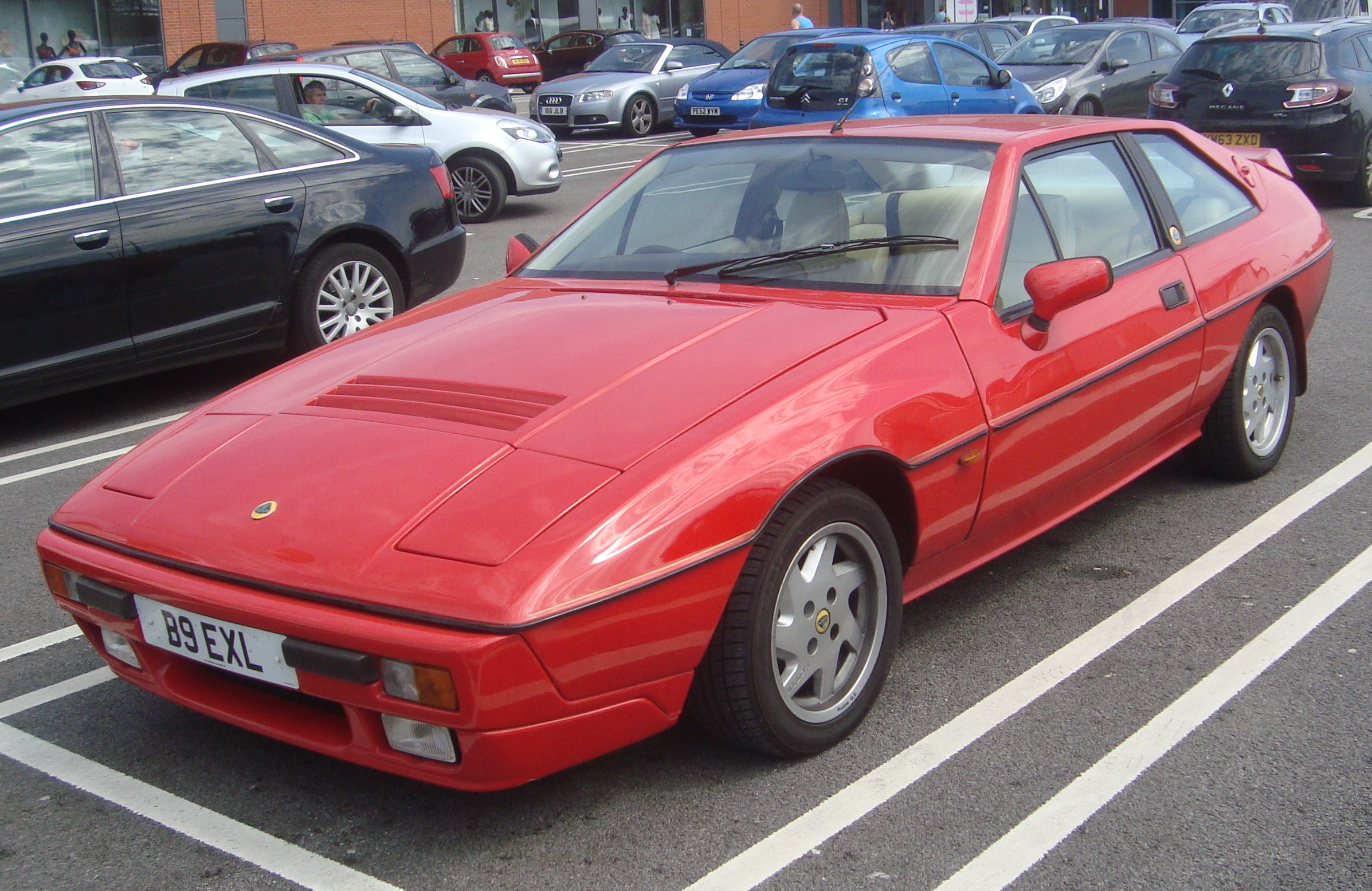 Listed on cartell as an 'Eclat' but they went out of production in 1982 according to wikipedia